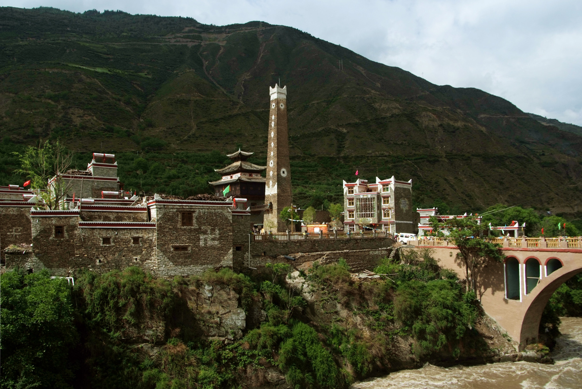 Village Worixiang